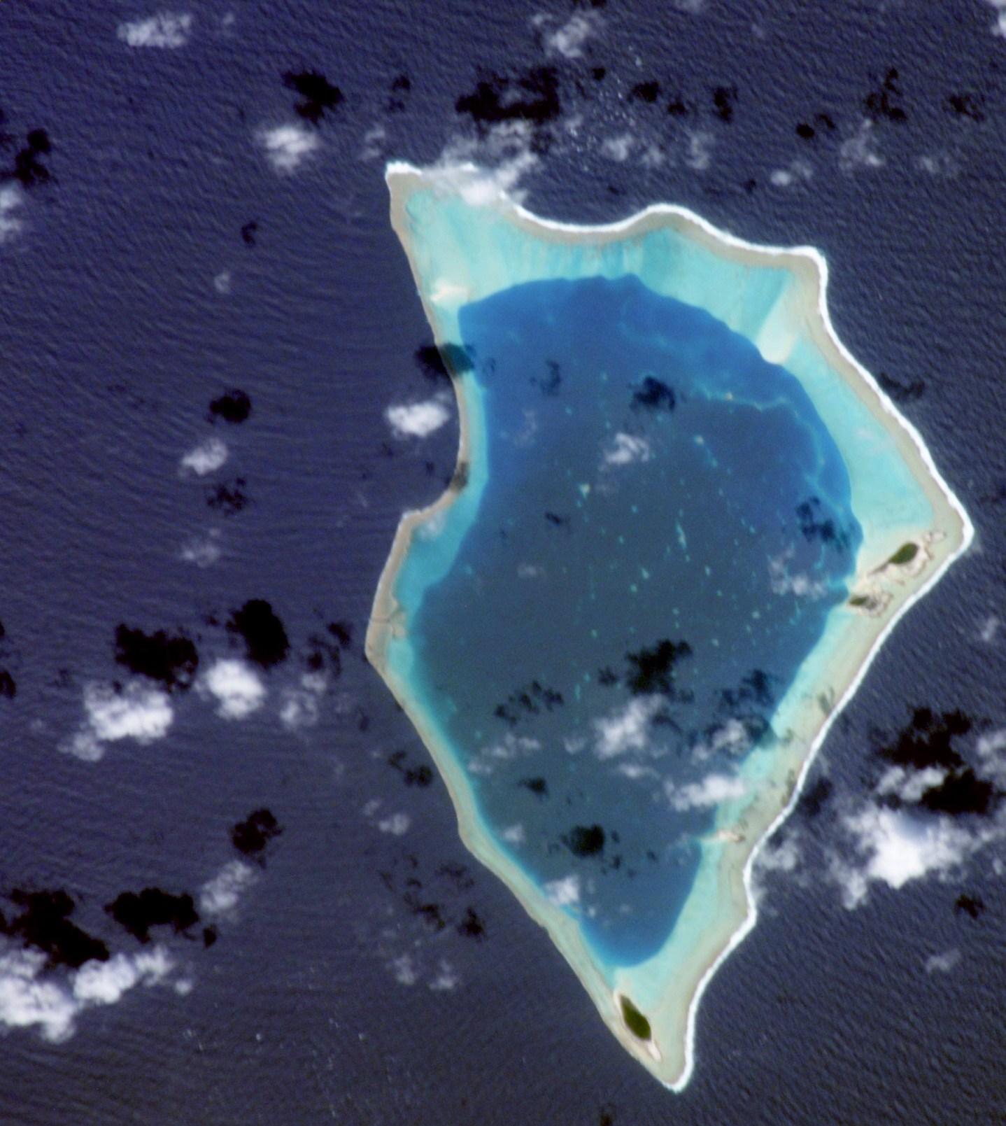 Bikar Atoll, RMI, photographed from the ISS. The original image was trimmed and rotated to orient the top of the image approximately to true North.